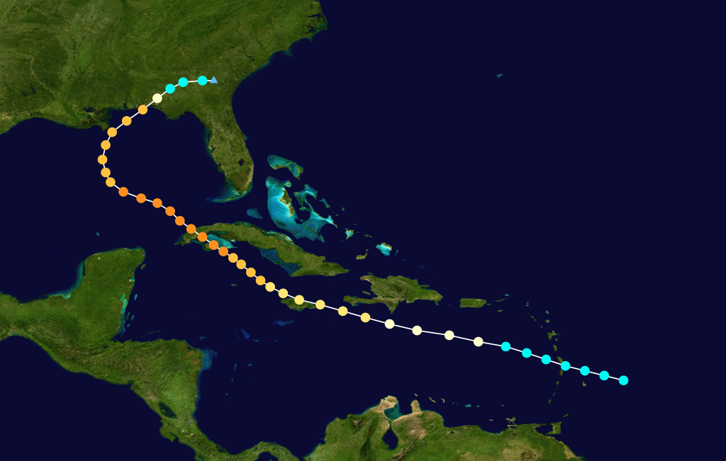 1917 Atlantic hurricane 4 track. Uses the color scheme from the Saffir-Simpson Hurricane Scale.